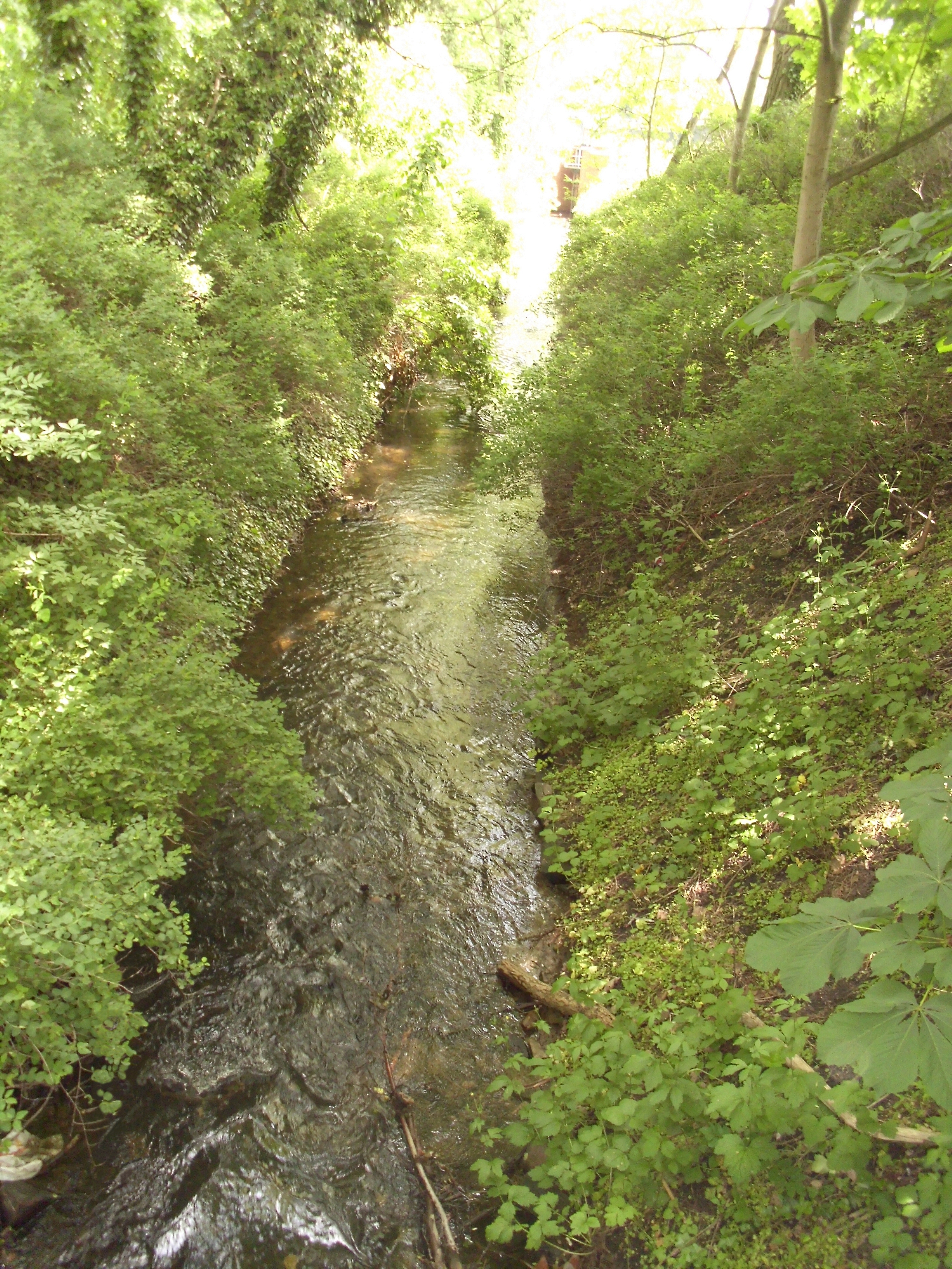 Sarre at Burg Wanzleben